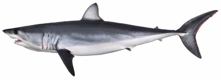 Shortnose mako shark (Isurus oxyrinchus)